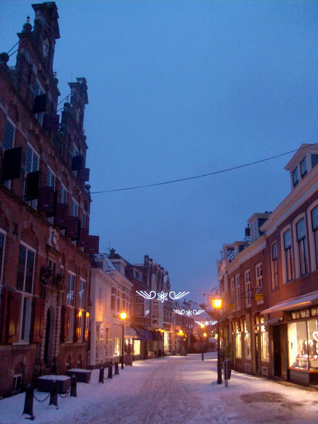 The Herenstraat (Gentlemen's Road) in Voorburg, Netherlands